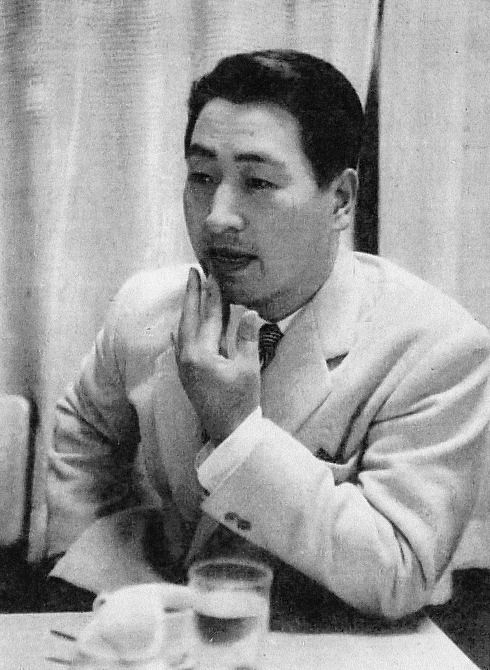 Masao Tanaka (mangaka)